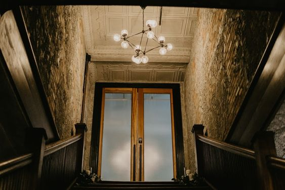 Famous wooden staircase in the Campbell Building that extends from the first floor to the third.